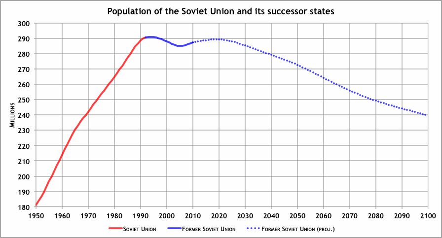 A chart showing population number for the Soviet Union (USSR) and the Post-Soviet states (FSU) for the years 1950-2100.